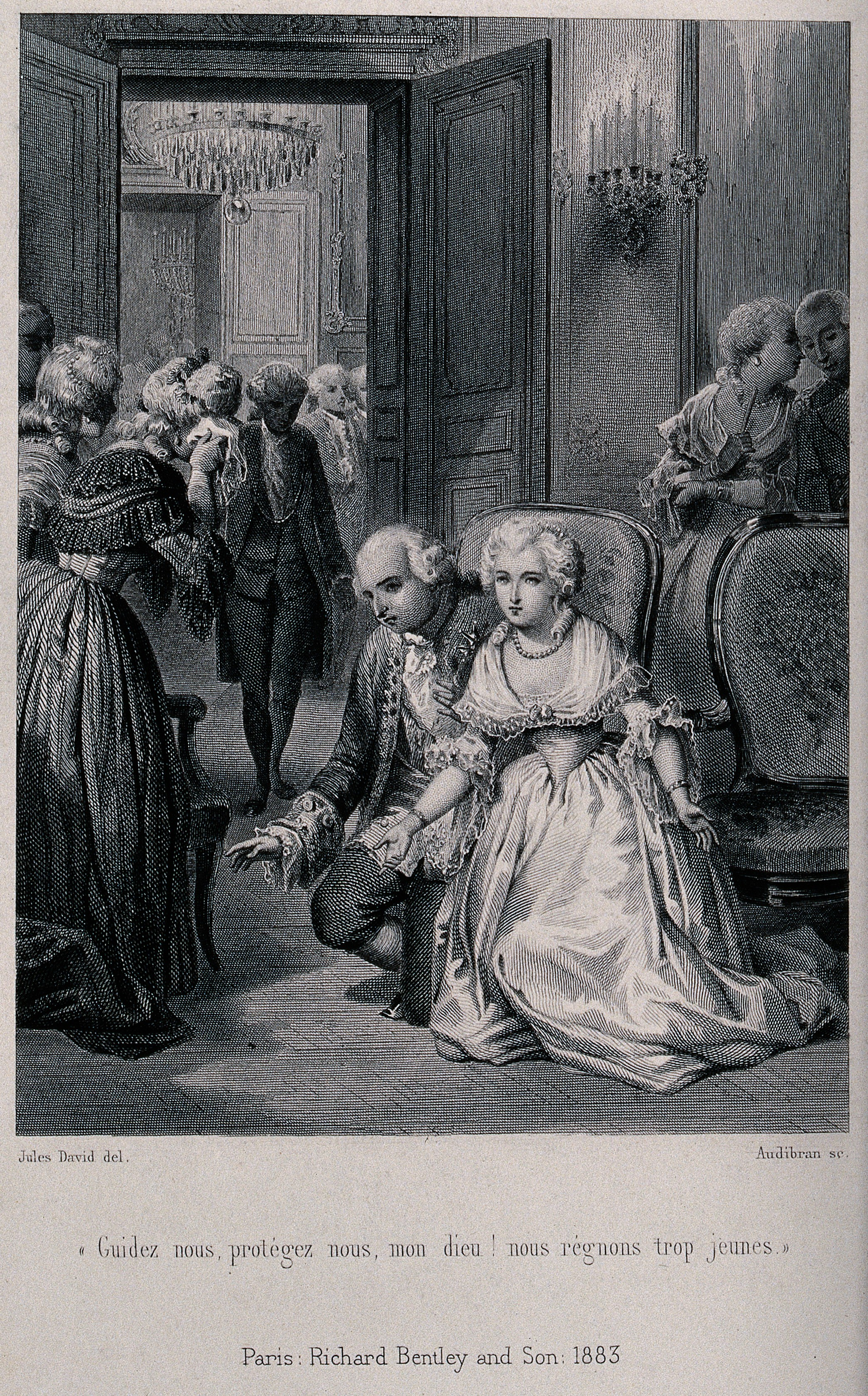 Louis XVI and Marie Antoinette taking leave from and asking for guidance from the members of court, some of which are tearful. Line engraving with etching by F.A.B. Audibran after J. David, 1883. Iconographic Collections Keywords: Jules David; Francois-Adolphe-Bruneau Audibran